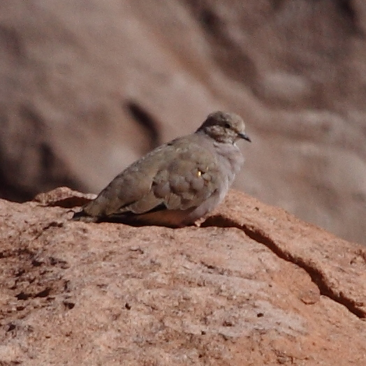 Golden-spotted ground Dove at San Pedro de Atacama, Chile